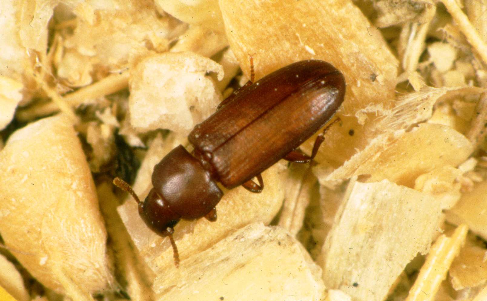 Triboleum crstanium. This insect thrives in stored grain.